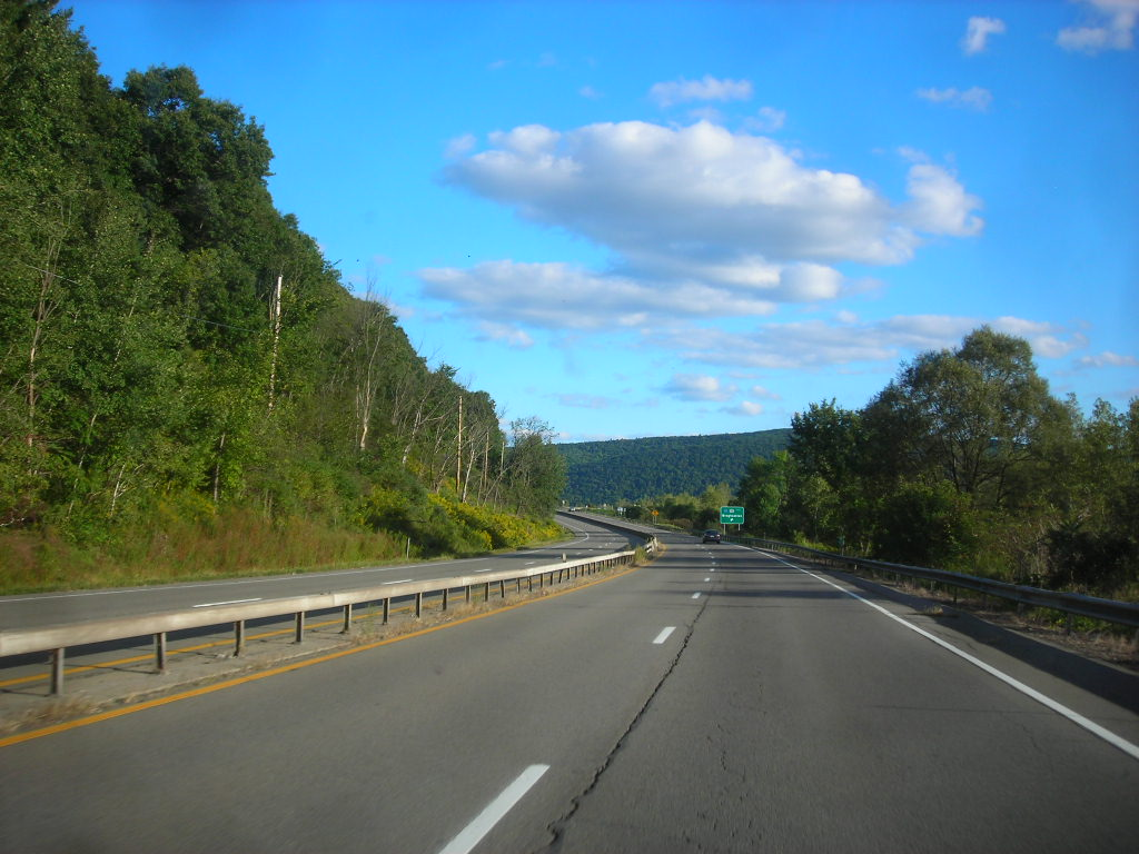 New York State Route 352 proceeding along Denison Parkway through the torn of Corning.